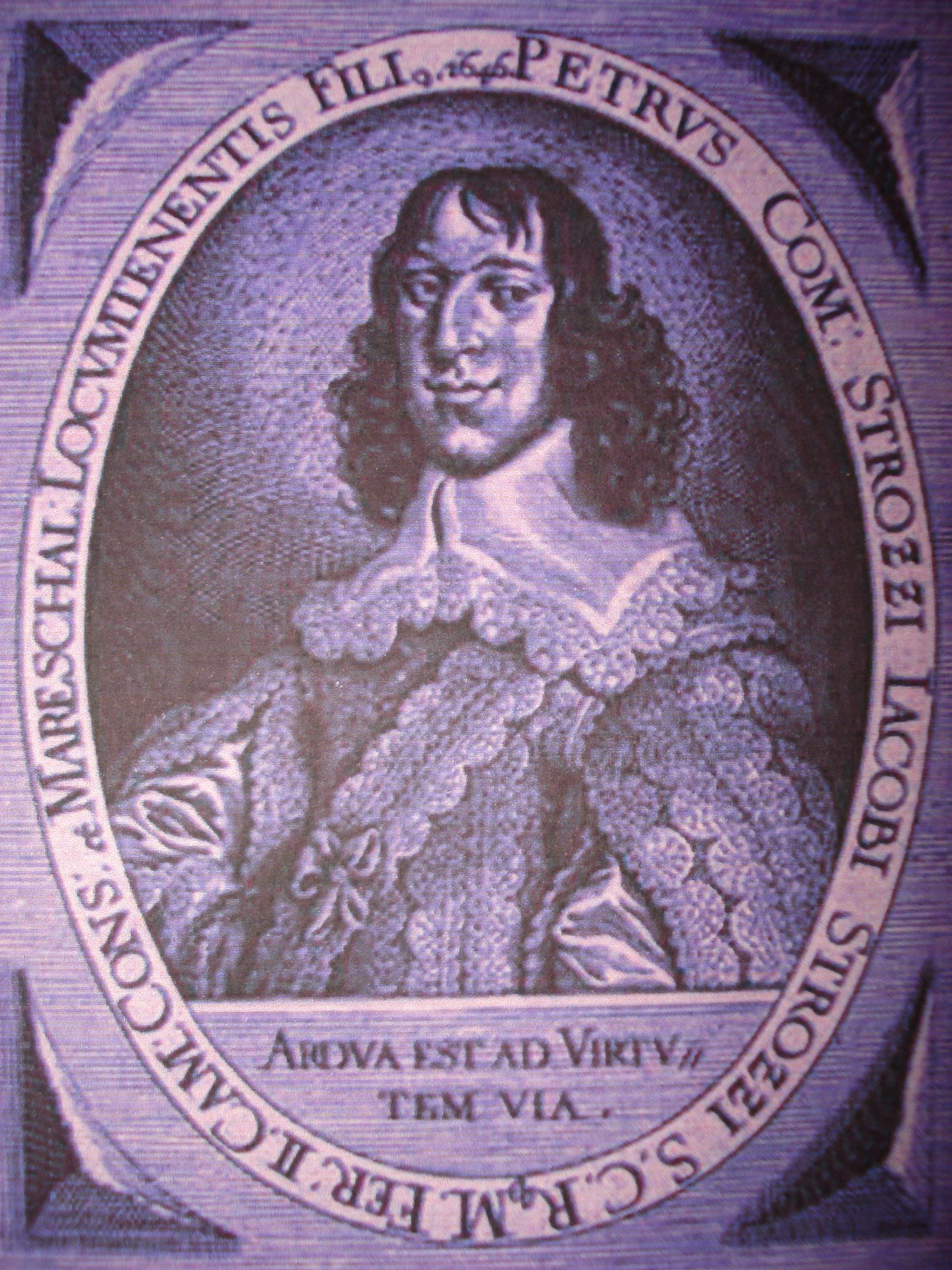 Portrait of count Peter Strozzi (1626-1664), Habsburg Army general of Italian descent, killed by the Ottoman Turks at the siege of Novi Zrin Castle in Medjimurje County, Croatia